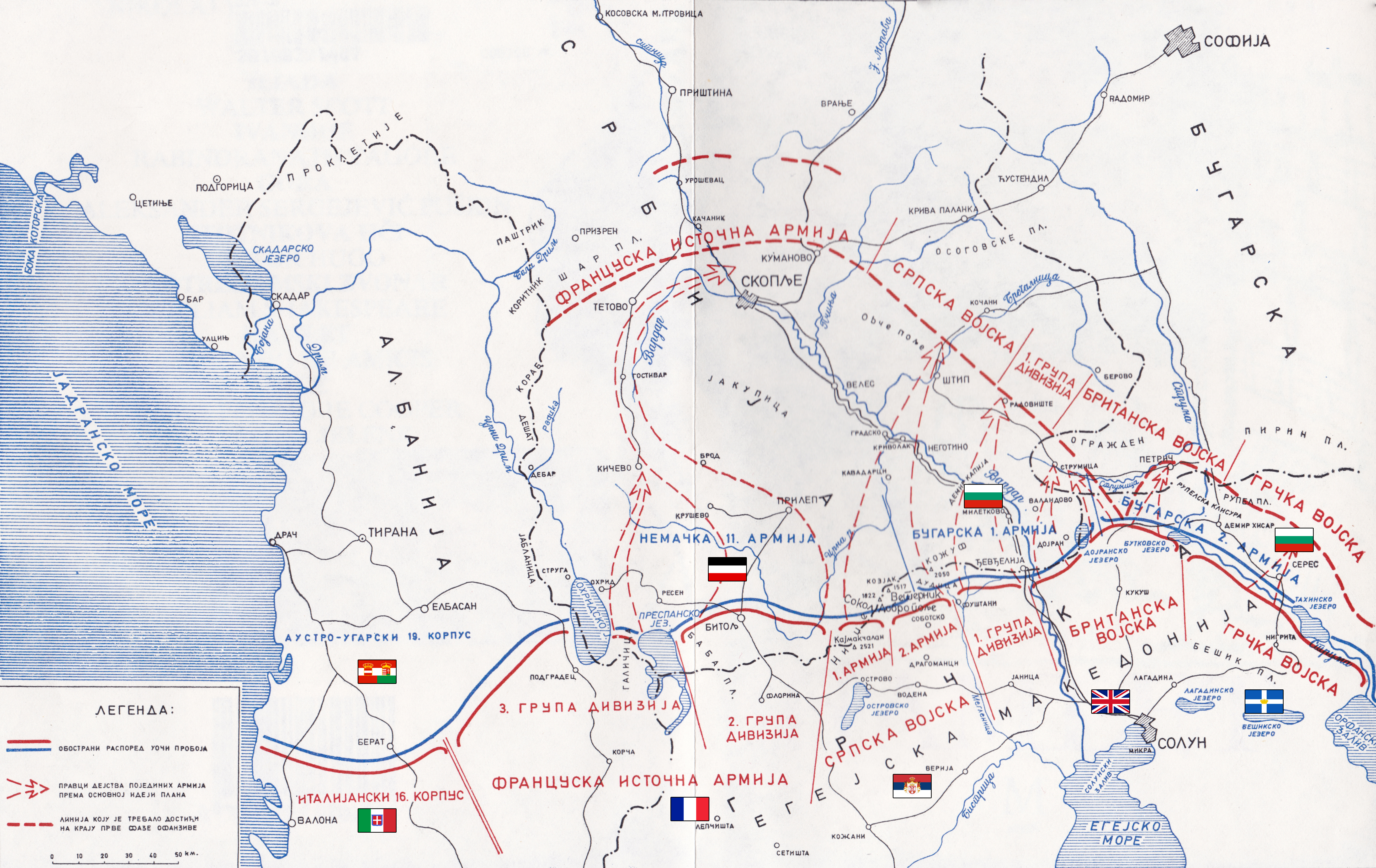 Military plan of armies on the ground for Vardar Offensive 1918